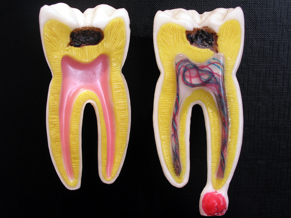 Demonstration model of tooth. The photo was taken the 23rd December 2005 by Håkan Svensson (Xauxa).